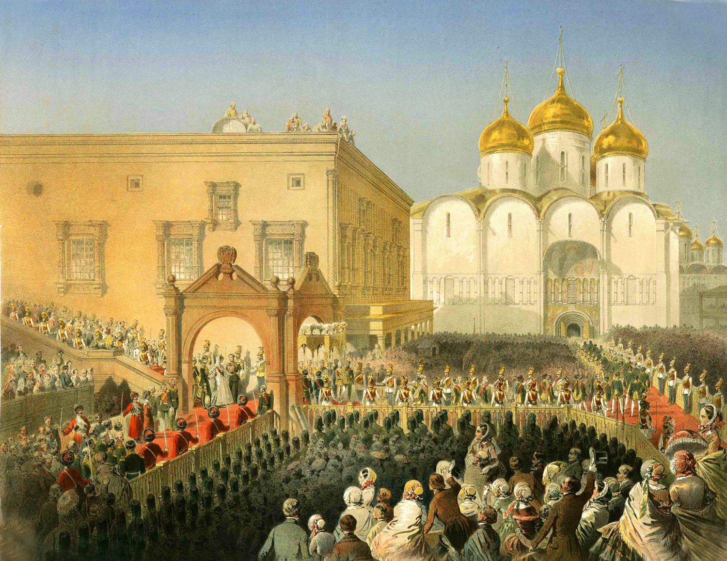 Entry Procession to the Uspenskij-Cathedral / Prozession Alexandra Fjodorownas in die Uspenskij-Kathedrale